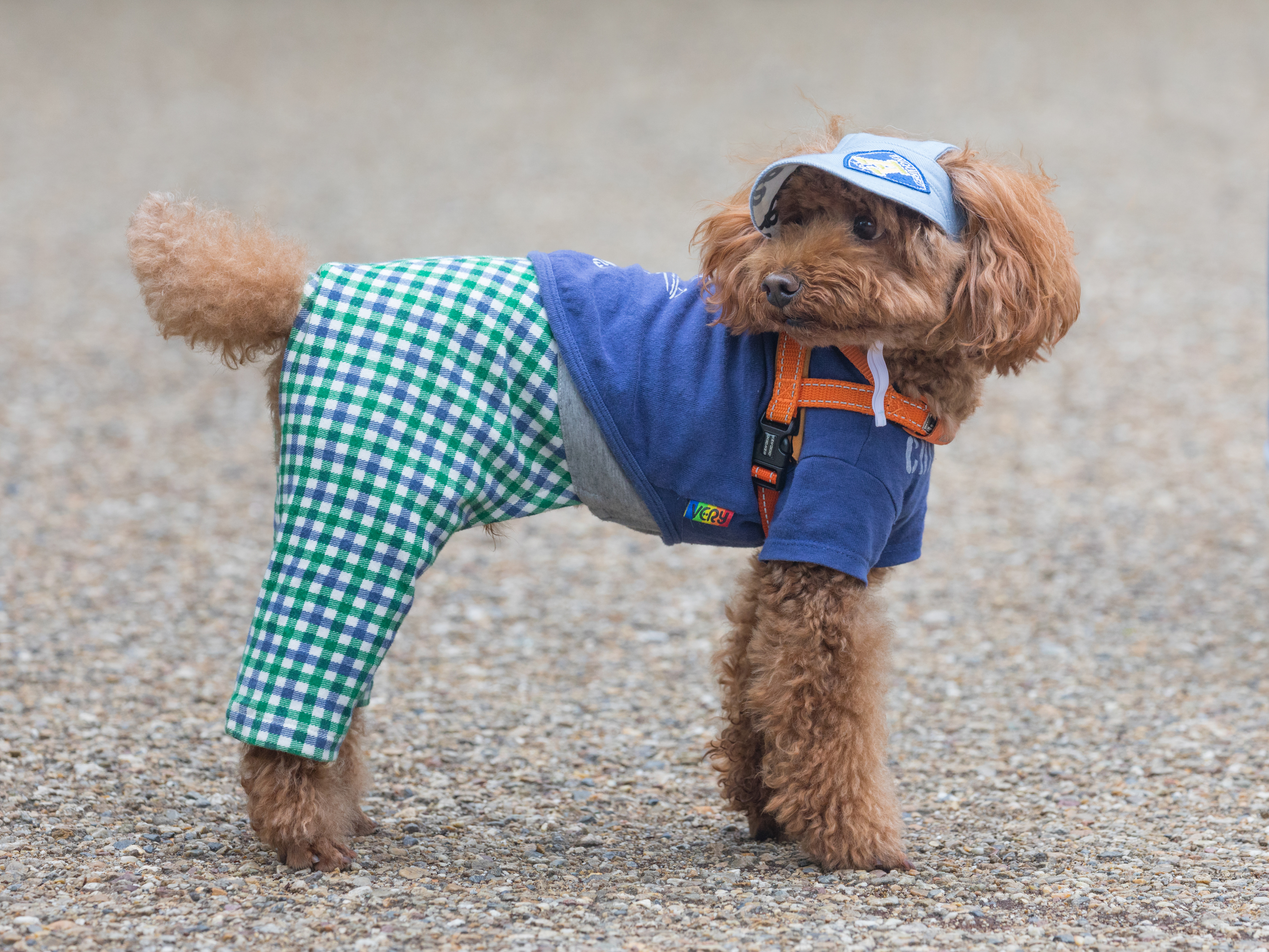 Toy Poodle wearing clothes in Ueno Park, Tokyo, Japan. Kawaii ("lovable", "cute", or "adorable") is the culture of cuteness in Japan.